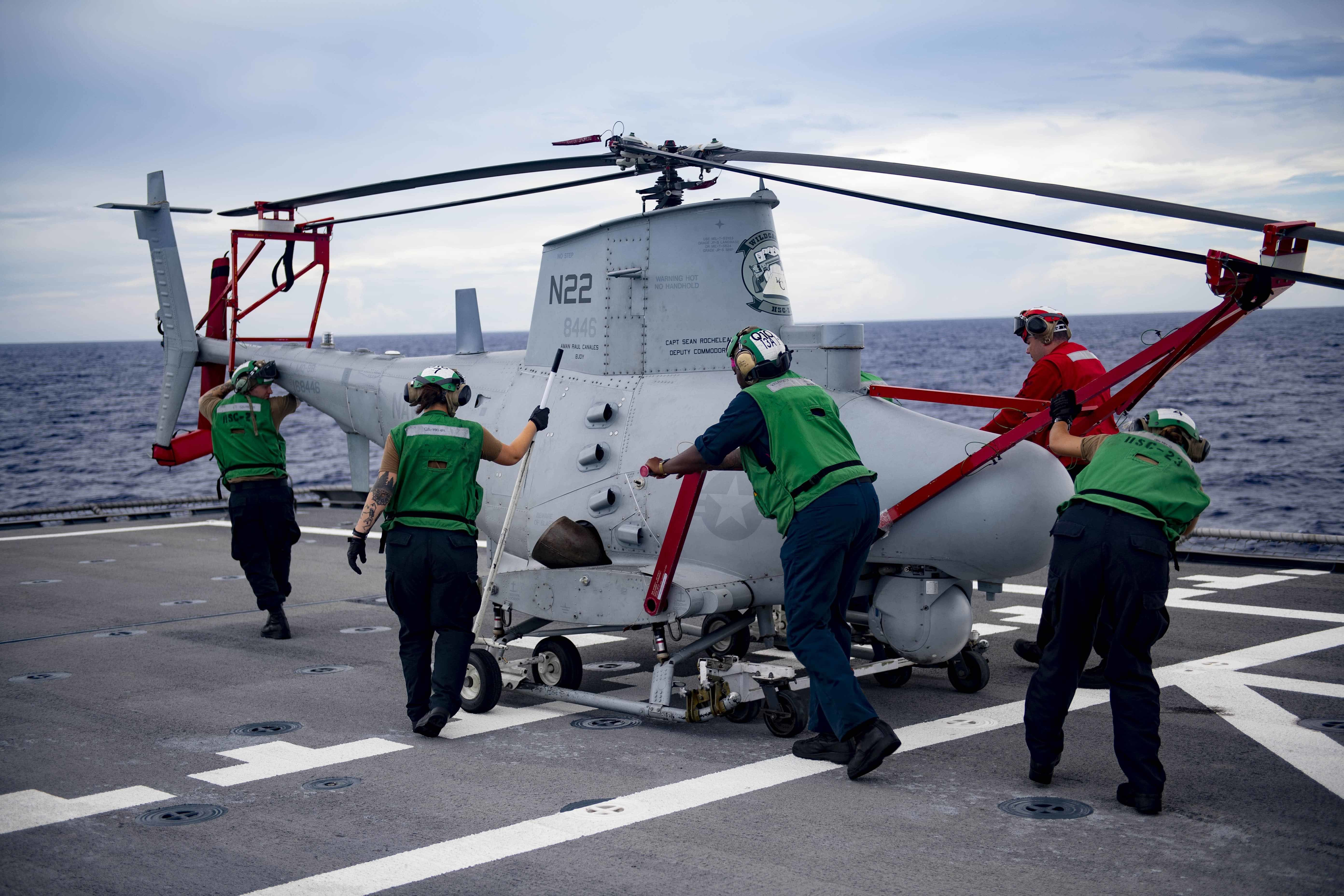 PACIFIC OCEAN (Sept. 18, 2019) Sailors push an MQ-8B Fire Scout assigned to the Wildcards of Helicopter Sea Combat Squadron (HSC) 23 on the flight deck of the Independence-variant littoral combat ship USS Gabrielle Giffords (LCS 10). Gabrielle Giffords is on a rotational deployment to Southeast Asia and is the fifth LCS to deploy to the region. Fast, agile and networked surface combatants, LCS are optimized for operating near-shore environments. (U.S. Navy photo by Mass Communication Specialist 3rd Class Josiah J. Kunkle/Released)190918-N-YI115-1004